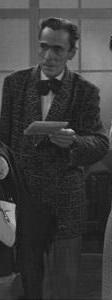 Carlos Gordillo-actor